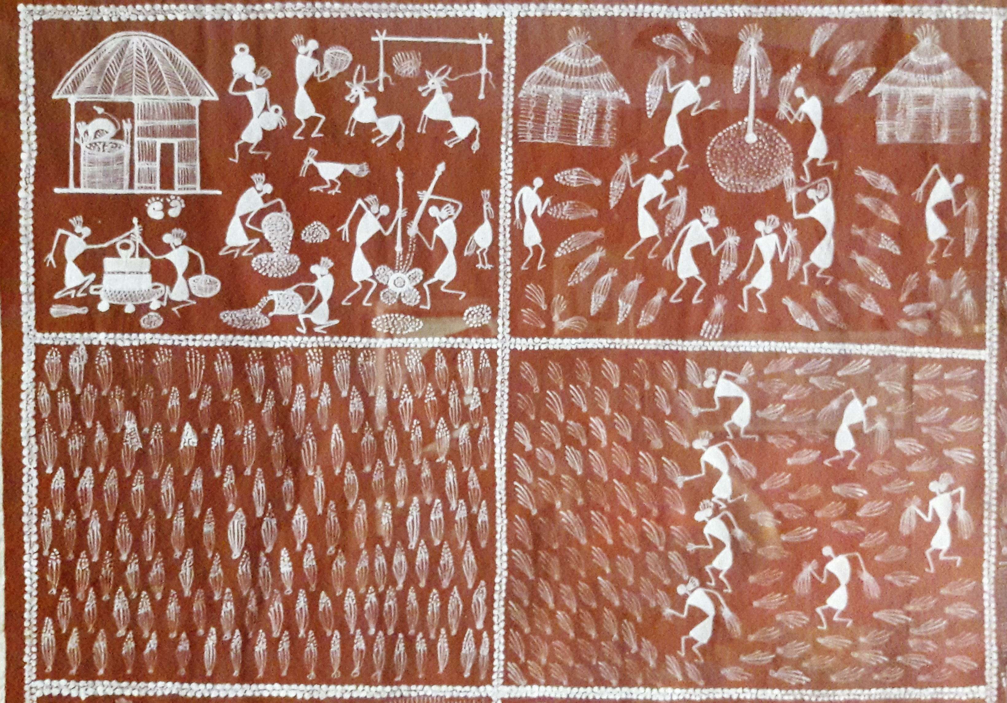 Warli folk paintings Warli folk paintings are famous in Maharashtra. Warli is the name of a group of people living in Western India. This form of art was noticed in the early seventies, and its roots can be traced to as early as the 10th century A.D. It is an expression of both daily and social events of the Warli folk. They use this form of painting decorate the walls of their houses. It is probably a means of transmitting folklore. Women are mainly engaged in the creation of these paintings. They are painted white (obtained from grinding rice into powder) on mud walls, usually depicting scenes of human figures engaged in hunting, dancing, sowing and harvesting